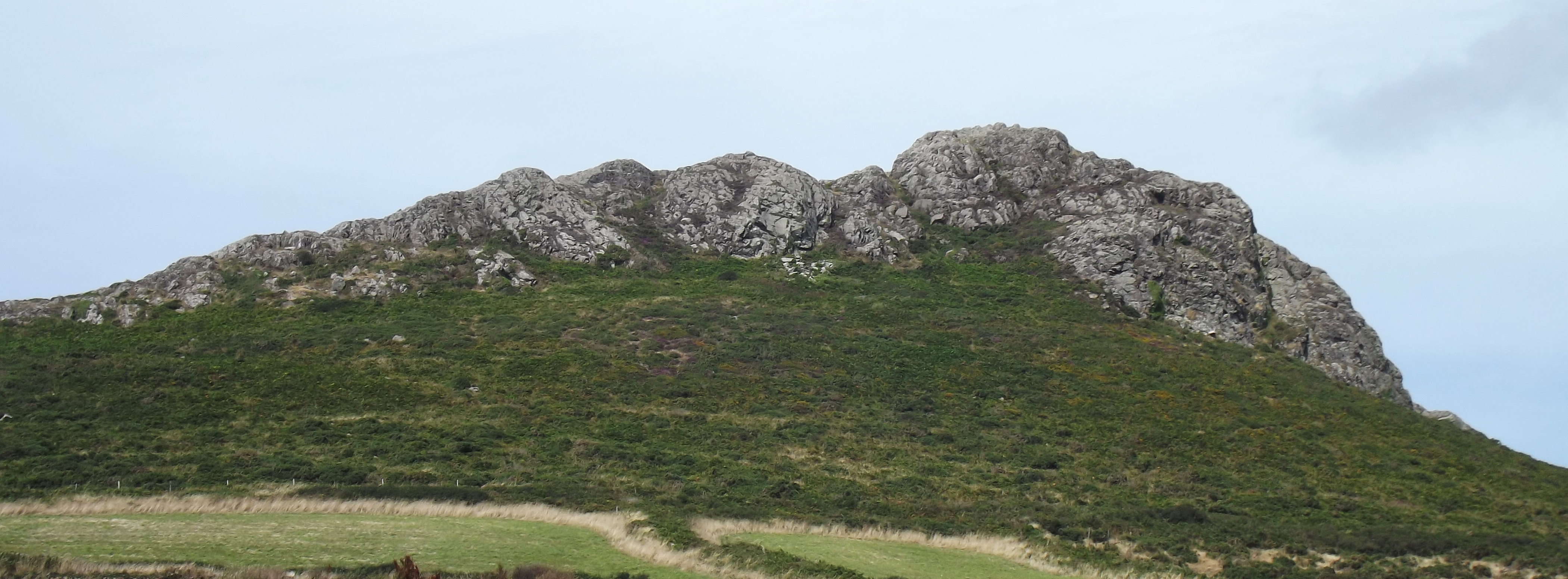 Carn Llidi (Wales) as seen from Whitesands Bay